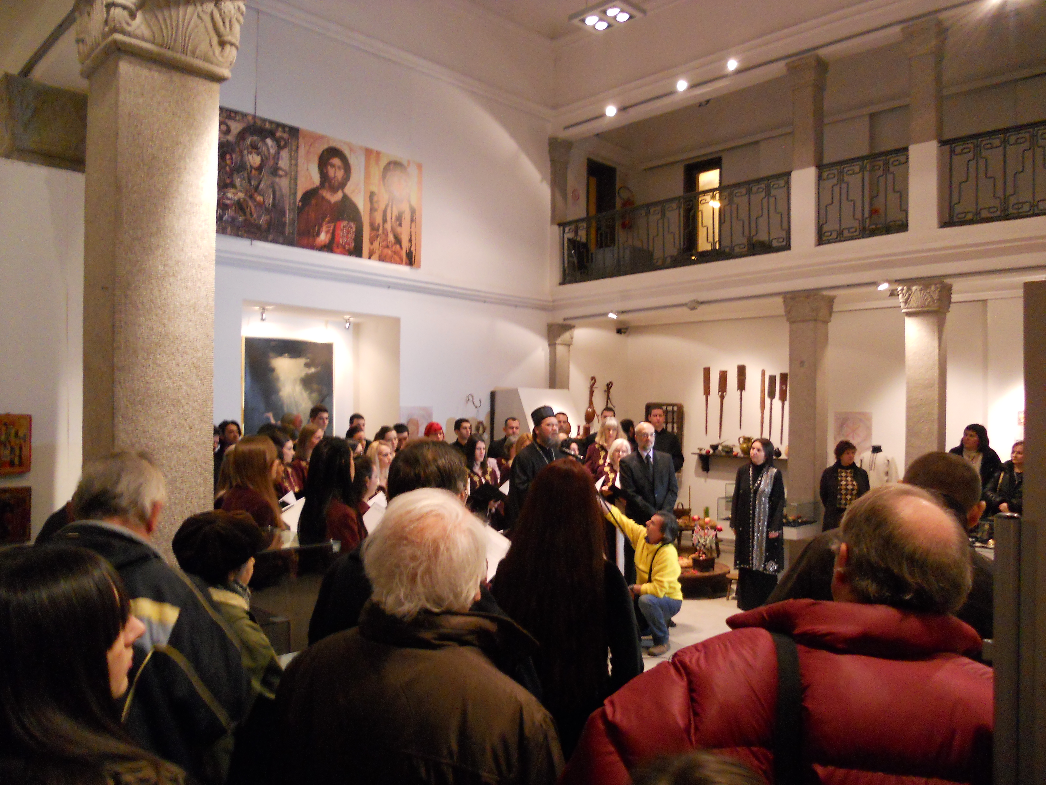 Synagogues in Niš, interier. Autor Milorad Dimic DM, jan.2013 Srpski (latinica): Sinagoga u Nišu, pogled u unutrašnjost.